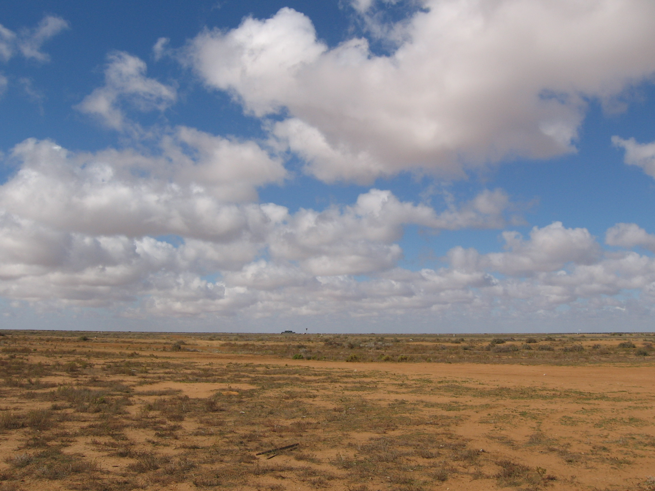 A flat, treeless plain at One Tree, New South Wales